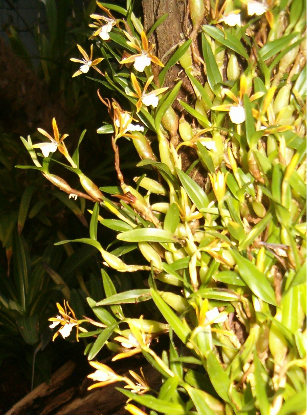 Location: Botanical Gardens Berlin Dahlem